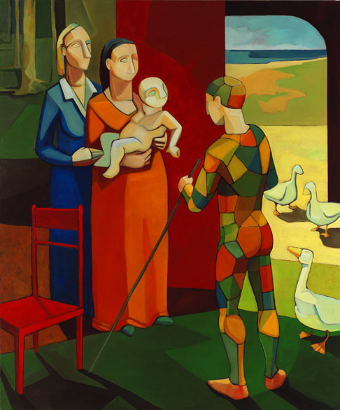 it is an image of an award winning painting by Sandro Nocentini